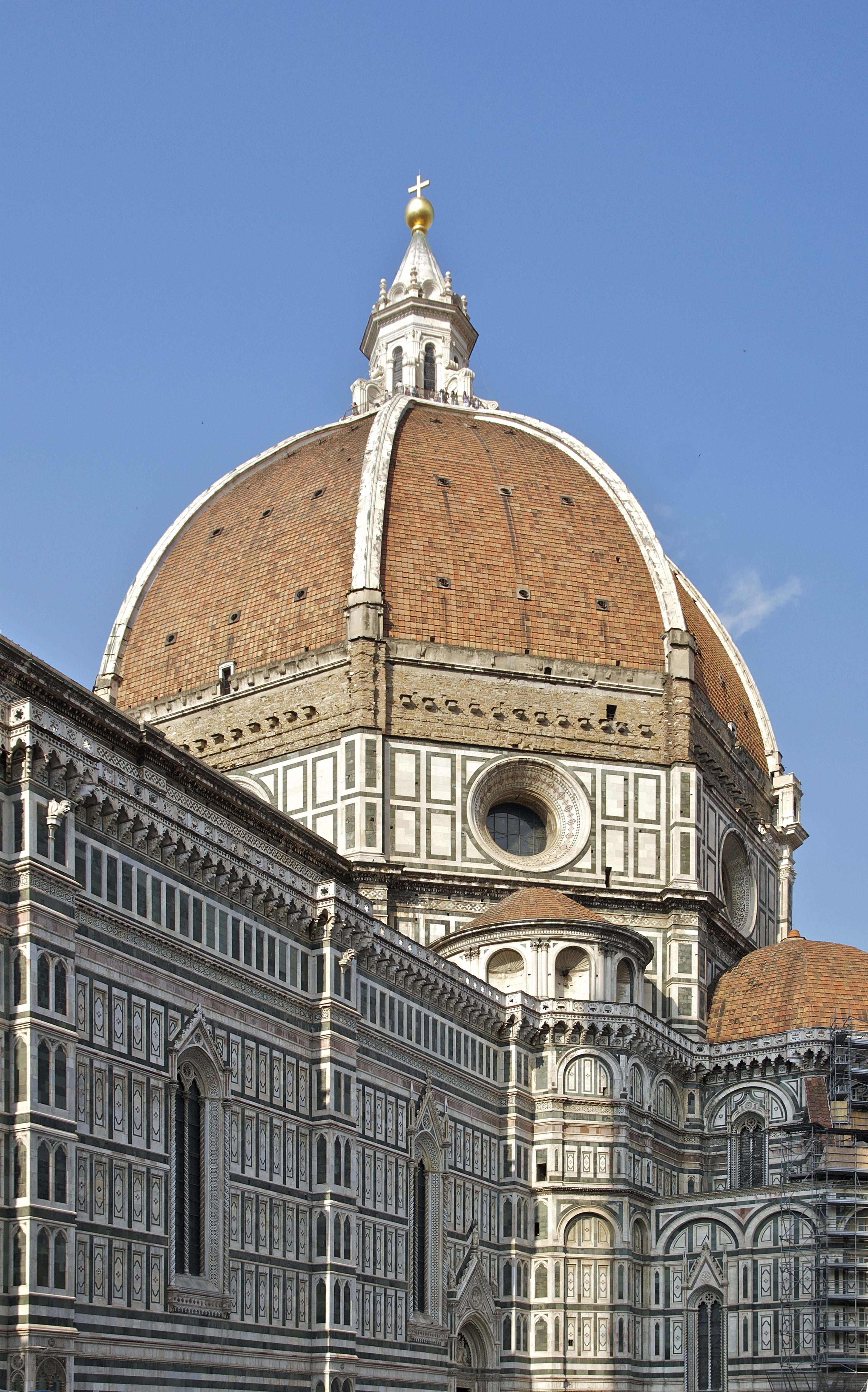 The Brunelleschi cuppola, as seen from the right side of the cathedral. Florence, Italy.